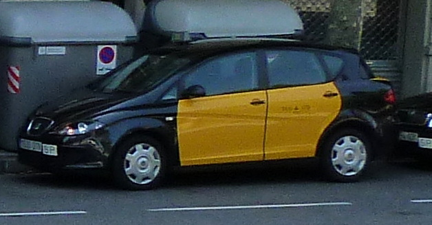 Photos taken travelling around Barcelona